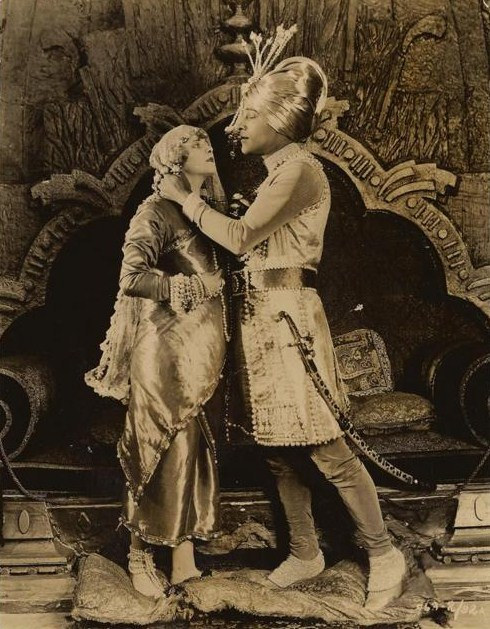 Film still of Wanda Hawley and Rudolph Valentino in The Young Rajah (1922).